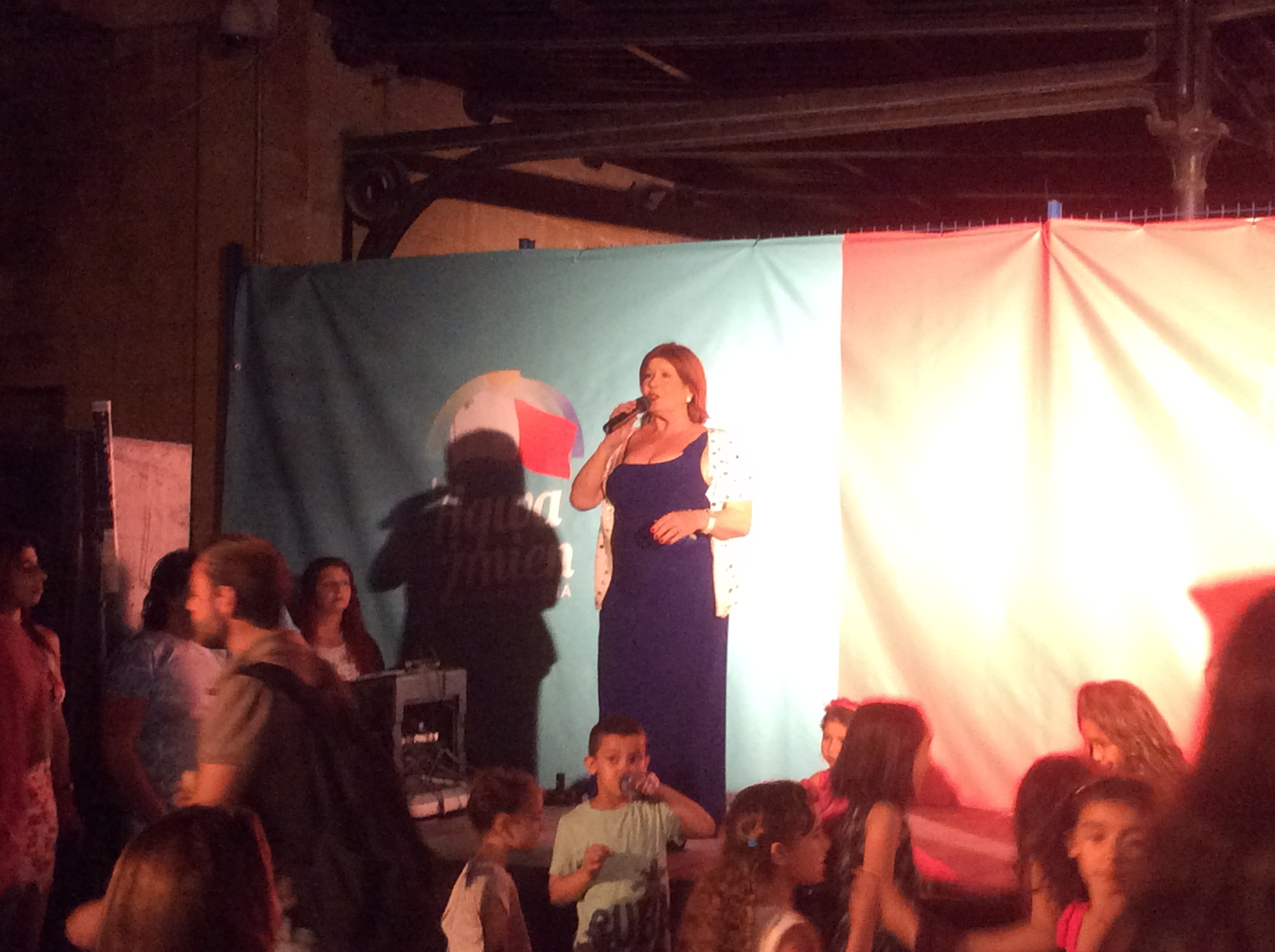 Birchirchara Station Garden